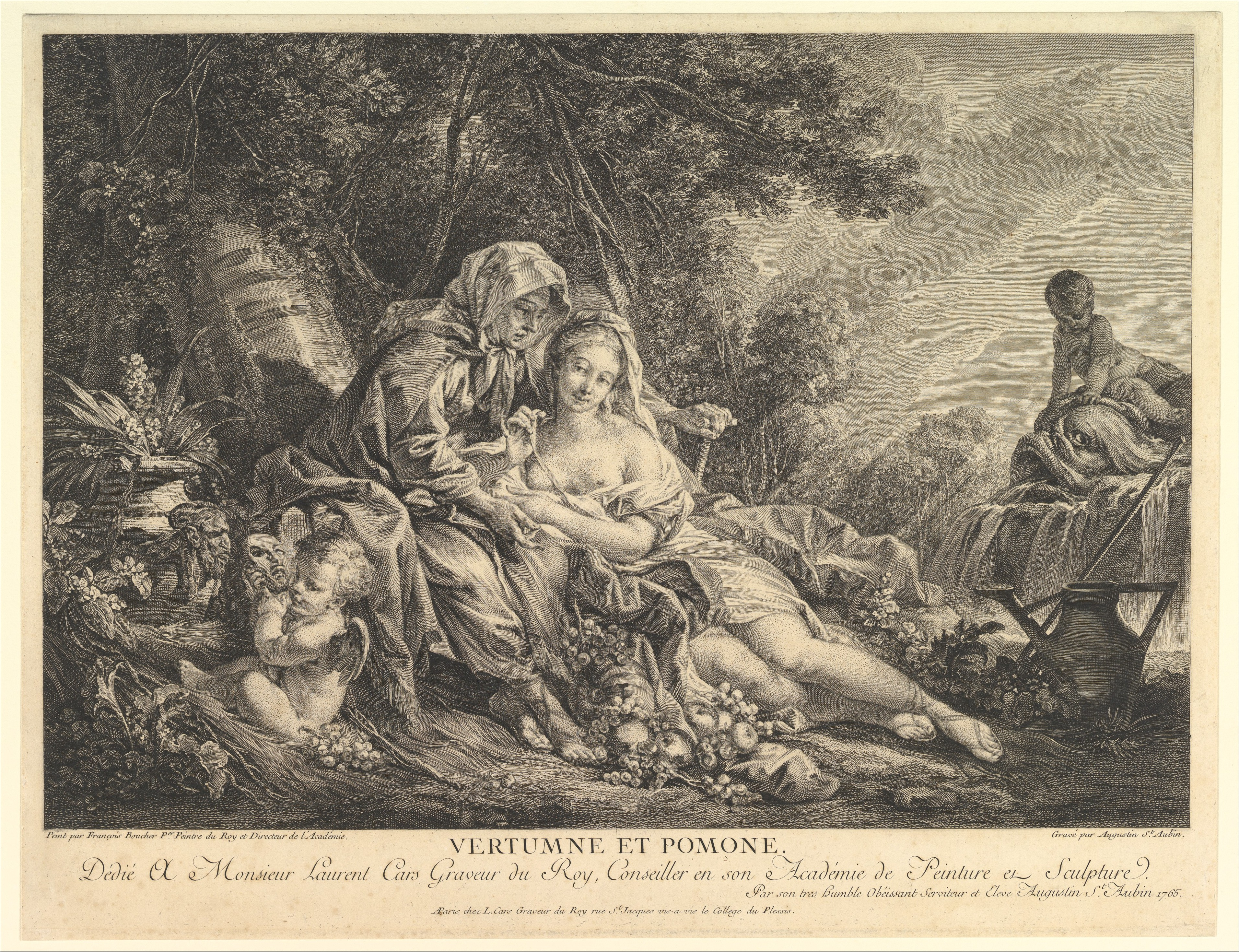 Print; Prints